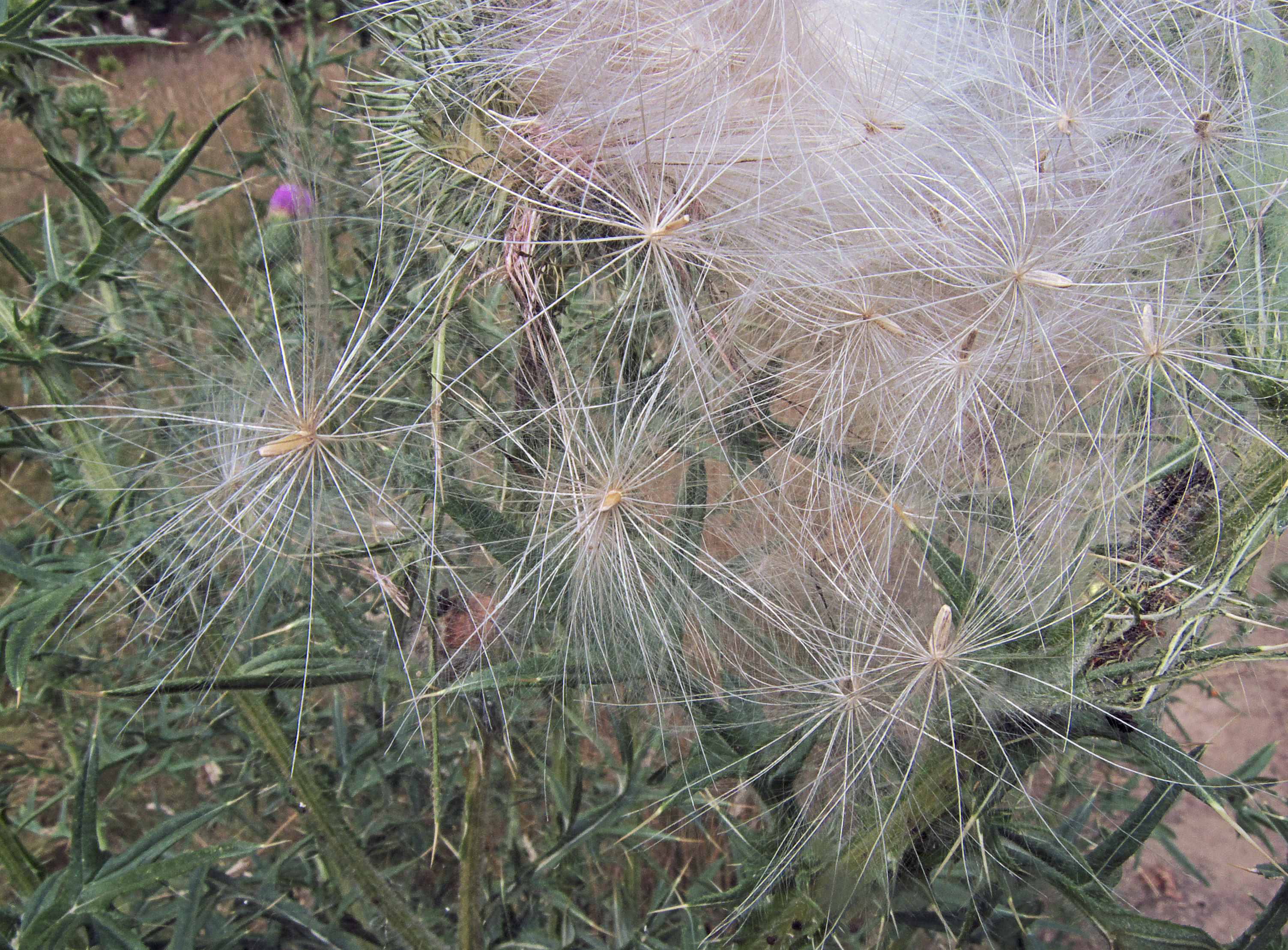 Cirsium vulgare, pappus